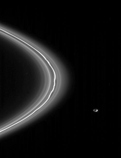 The shepherd moon, Pandora, is seen here alongside the narrow F ring that it helps maintain. Pandora is 84 kilometers (52 miles) across.